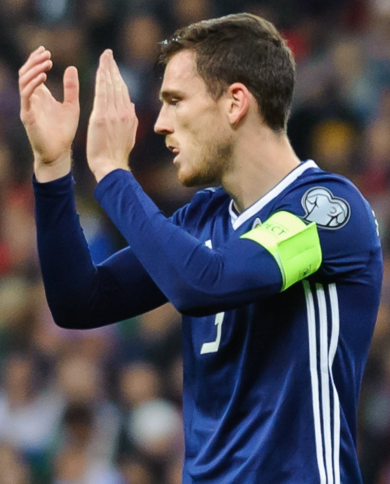 Scottish footballer Andrew Robertson on 10 October 2019, during the 2020 UEFA European Championship qualifying match between Scotland and Russia in Moscow.